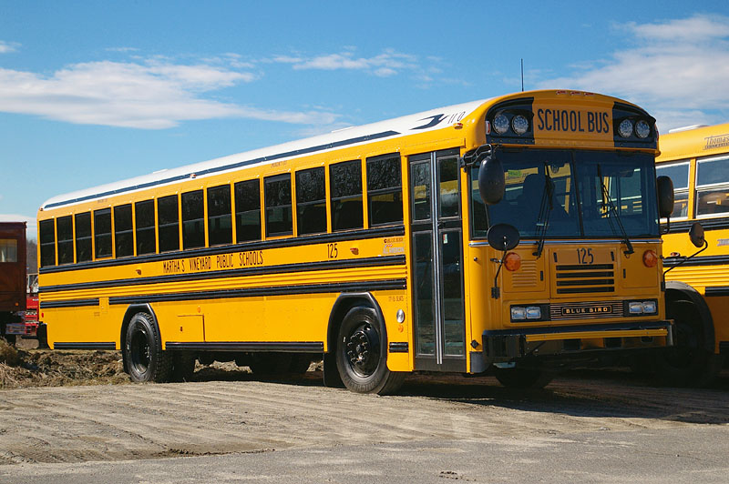 A 2009 Blue Bird "All American FE" school bus, owned and operated by Martha's Vineyard Public Schools, #125 (photographed in Portland, Maine).